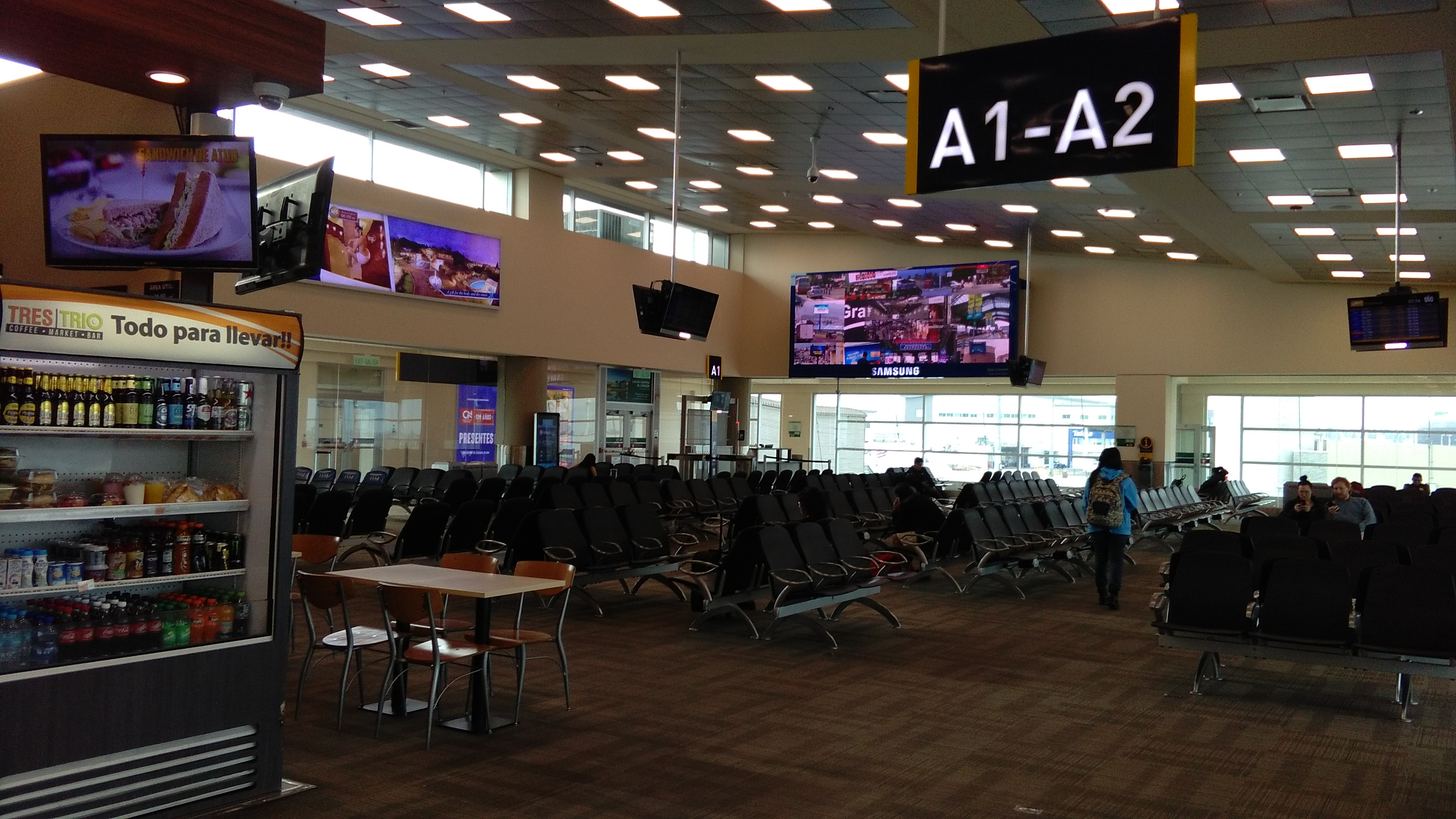 Boarding gate (domestic terminal)